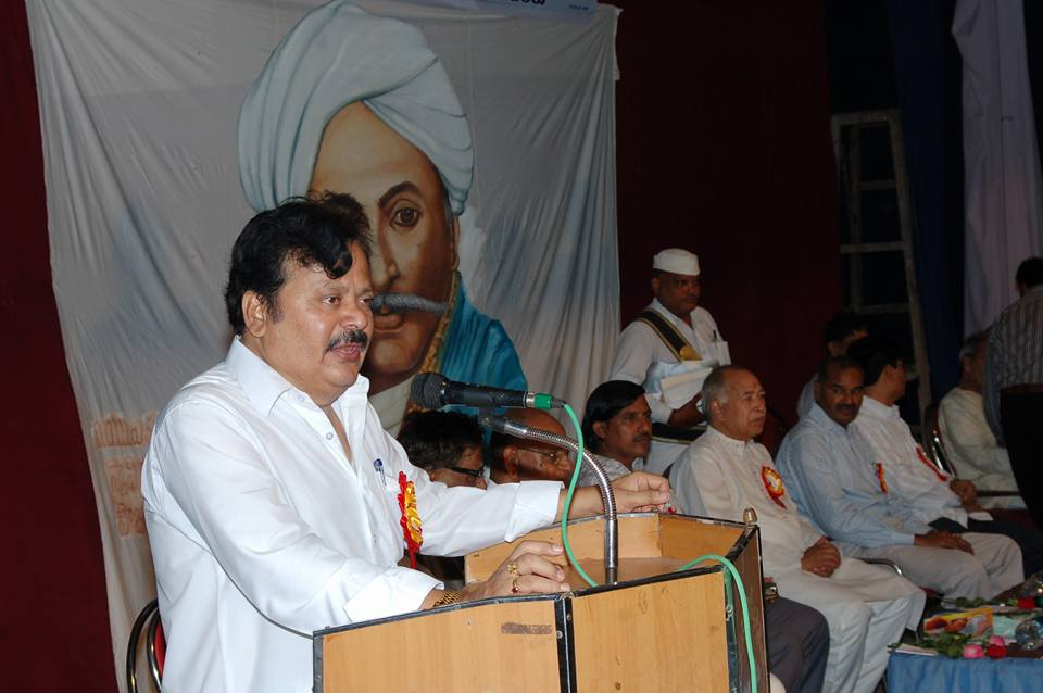 గురజాడ జన్మదినం సందర్భంగా ప్రసంగిస్తున్న వేదగిరి రాంబాబు